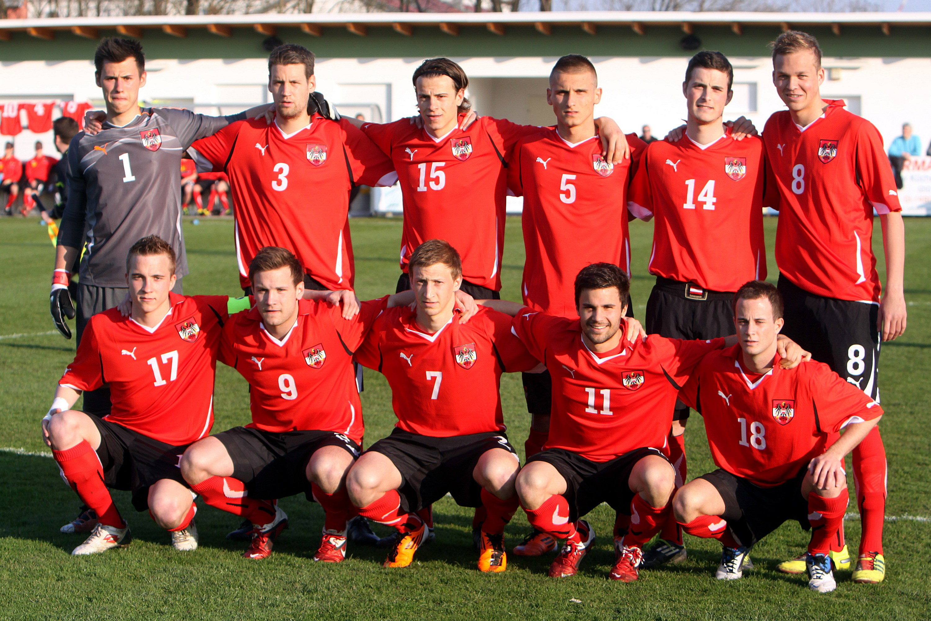 Austria U-21 before the friendly-match against Norway U-21 (2:1), 2011-03-29 in Parndorf